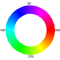 Color wheel